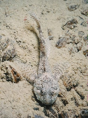 European bullhead, west part of Lake Constance, close to Wallhausen